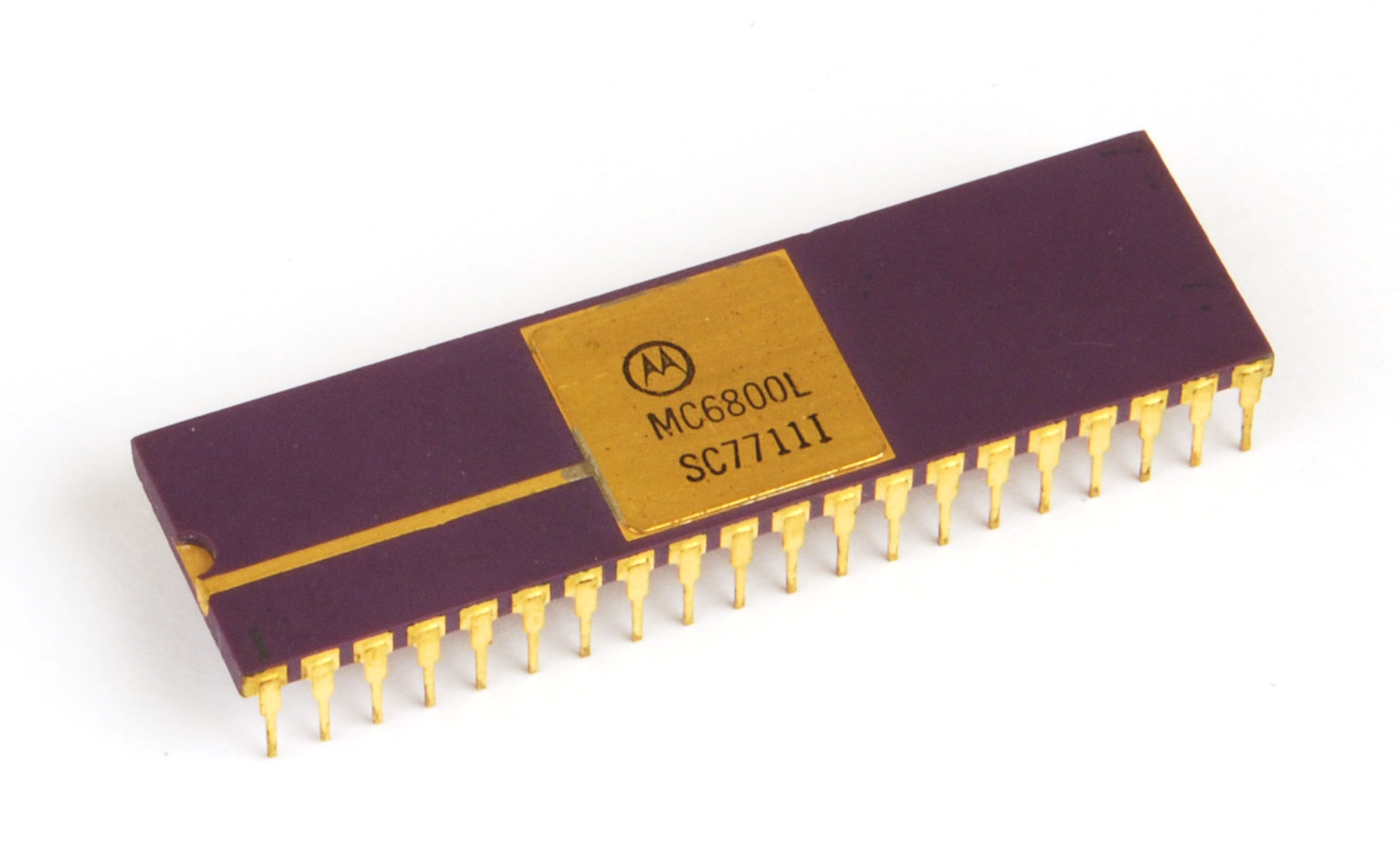 The Motorola MC6800 8-bit microprocessor was announced in March 1974 and shipments of the M6800 family of MPU, RAM, ROM and peripherals began in December 1974. The L suffix indicates a ceramic package; the P suffix was for a plastic package. This chip was produced in the 11th week of 1977. "Motorola joins microprocessor race with 8-bit entry", Electronics (McGraw-Hill), 47 (5), pp. 29-30, March 7, 1974. "Microcomputer system runs on one 5-V supply", Electronics (McGraw-Hill), 47 (26), pp. 114-115, December 26, 1974. "Motorola's M6800 microcomputer system … is moving out of the sampling stage and into full production."